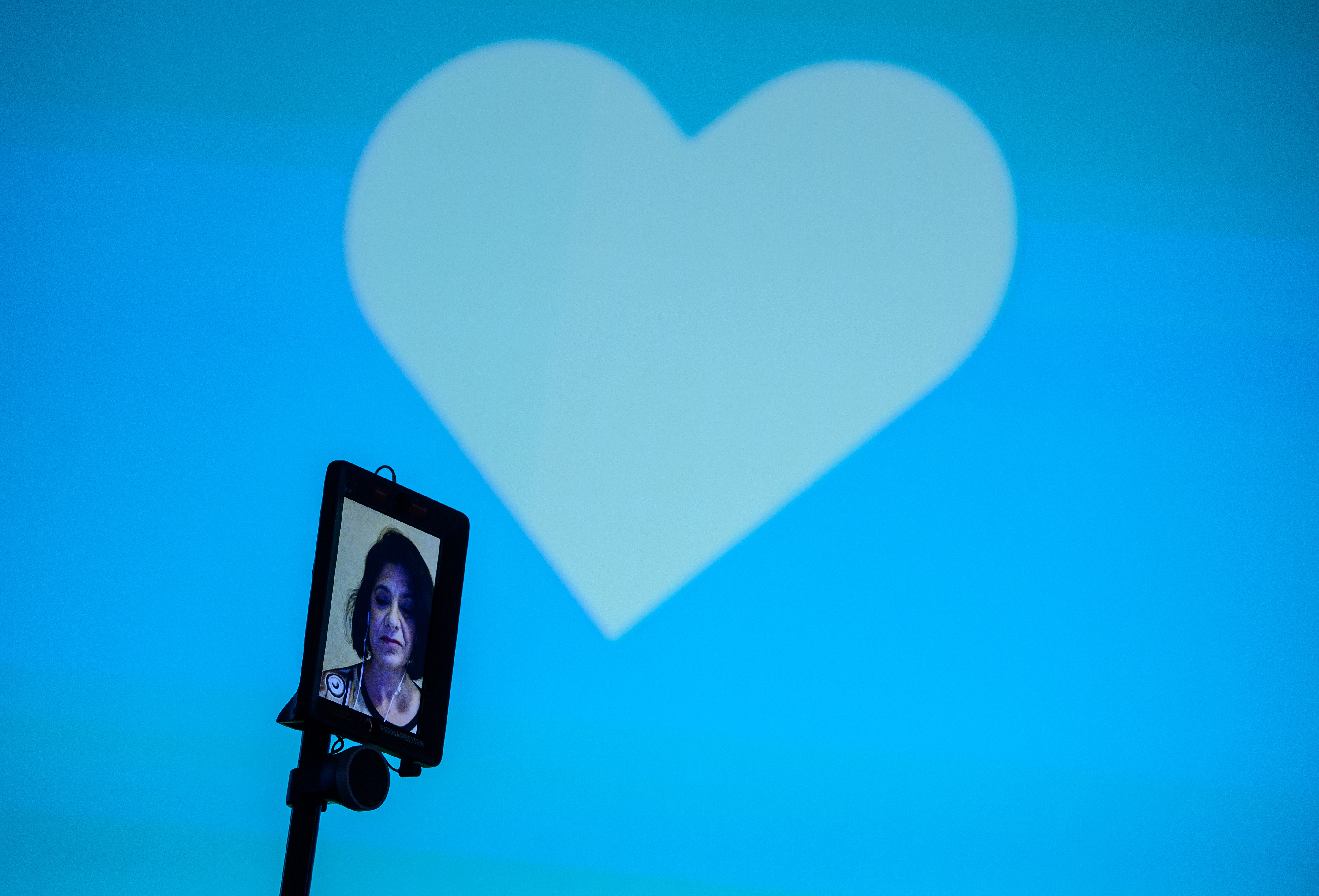 Diskussion "A robot psychiatrist and a battle-robot builder walk into a bar - and talk" am 10.05.2017 mit Lisa Winter und Joanne Pransky auf der re:publica (#rp17) in Berlin. Foto: re:publica/Gregor Fischer